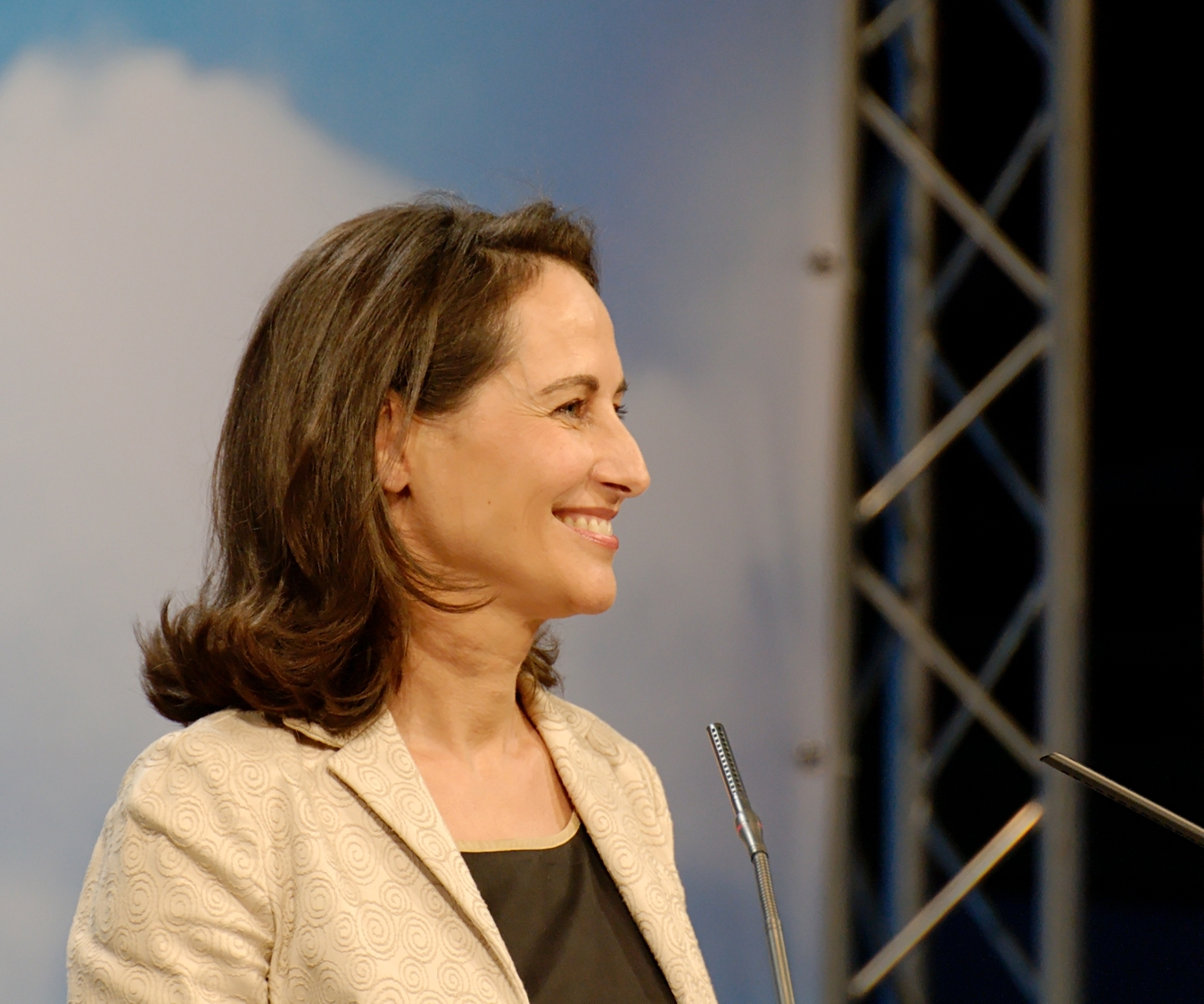 Ségolène Royal at a meeting held on Feb. 6, 2007 by the French Socialist Party at the Carpentier Hall in Paris.